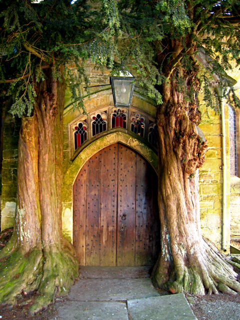 Stow-on-The-Wold: St Edward's Parish Church A pair of ancient yew trees guard the North door of St Edward's Parish Church.